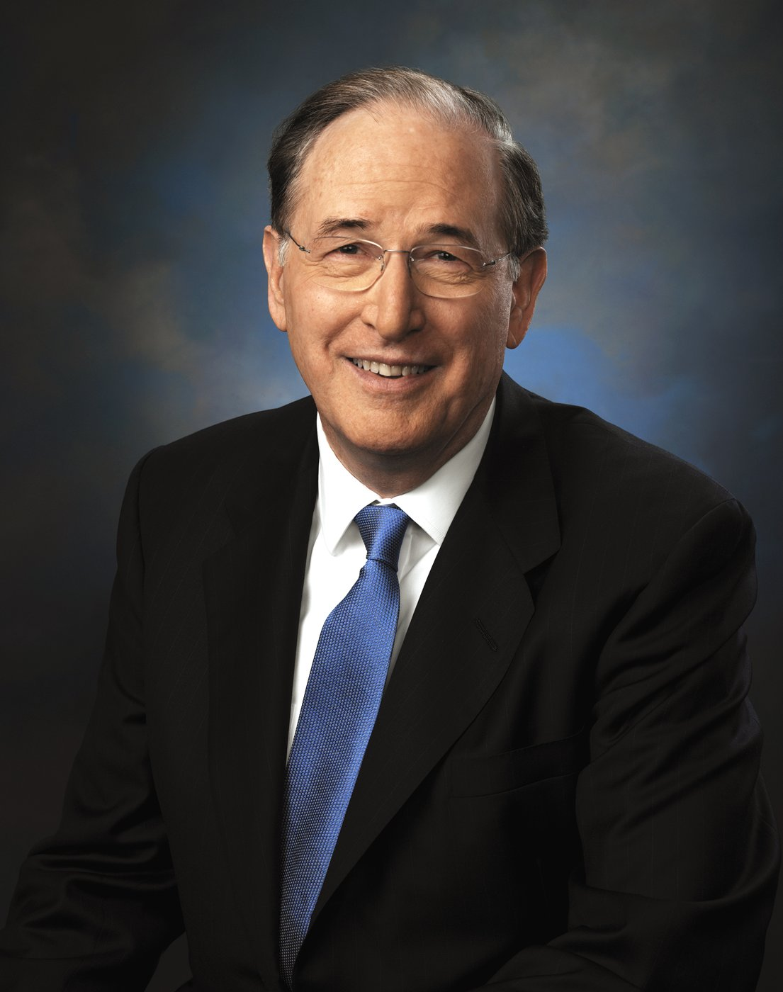 Official photograph of Jay Rockefeller, U.S. Senator.